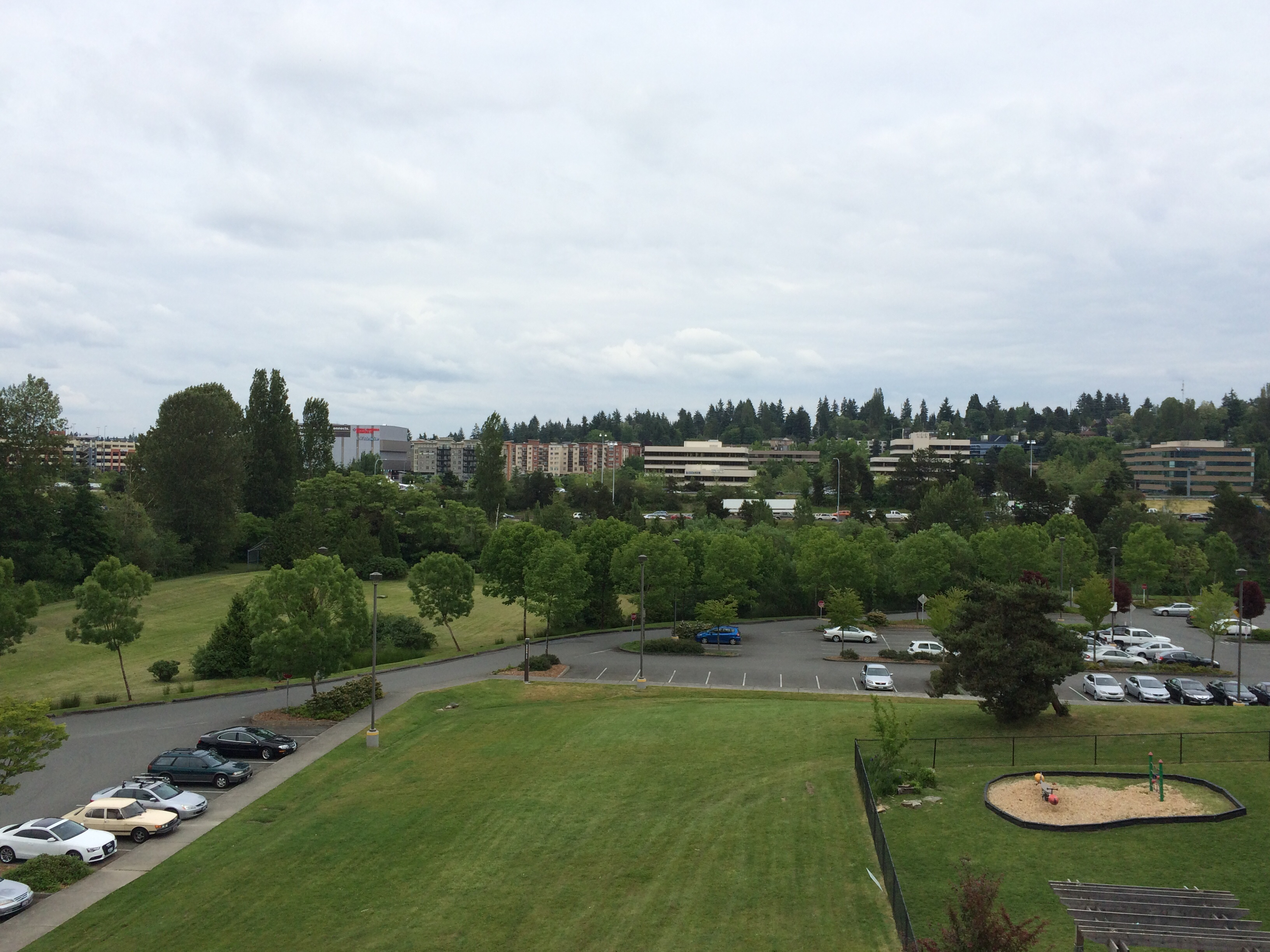 The skyline of the urban center of Seattle's Northgate neighborhood as viewed from North Seattle College.